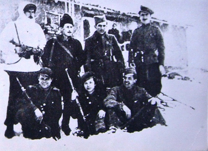 Headquarters of Battalion "Orce Nikolov", formed on December 1, 1943 in the village Pelince, Kumanovo This media file is produced by Wikipedian in Residence in Category:Wikipedian in Residence at DARM in 2016.